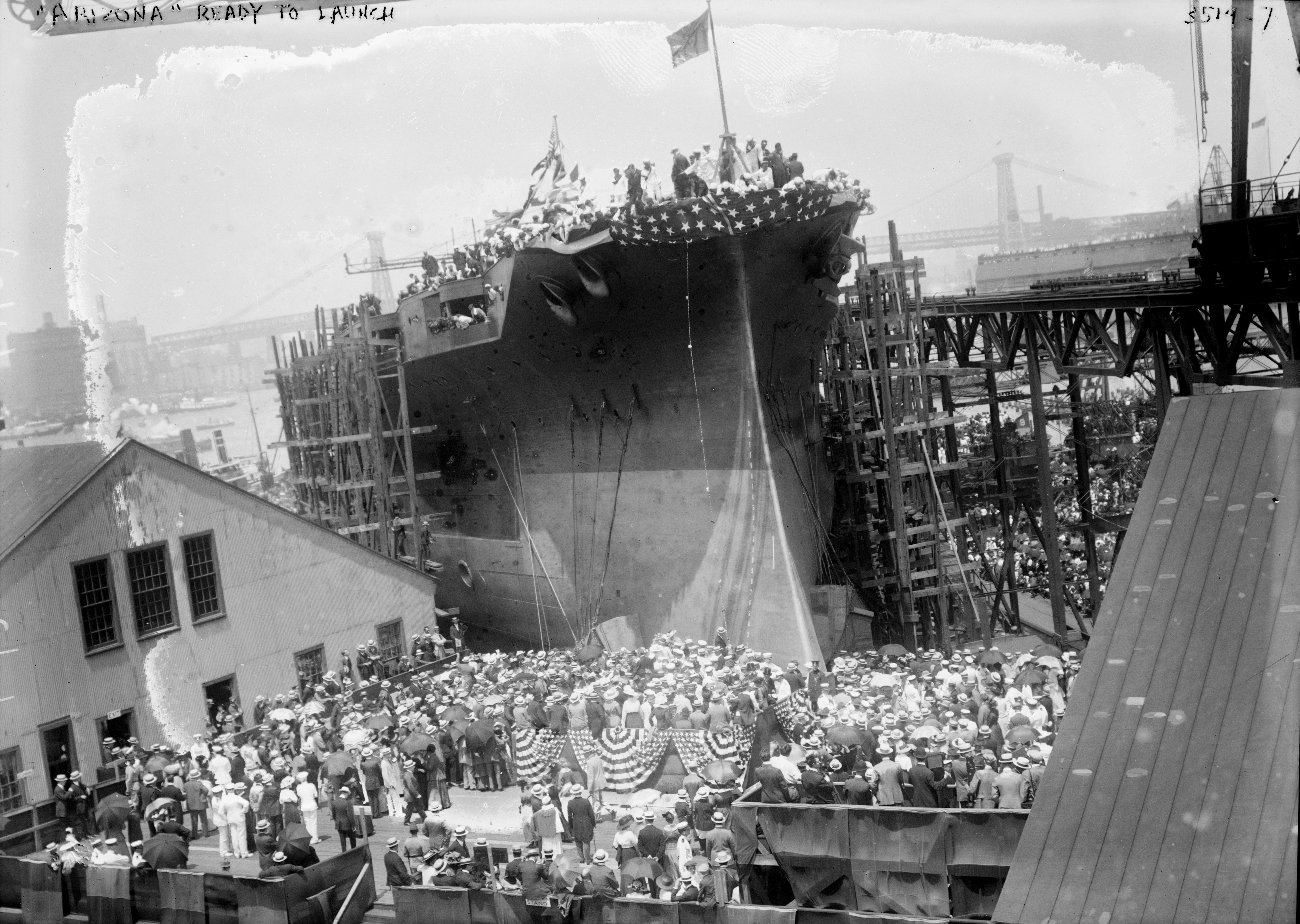 The launch party at the Brooklyn Navy Yard, New York (USA), on occasion of the launch of the U.S. navy battleship USS Arizona (BB-39) on 19 June 1915.